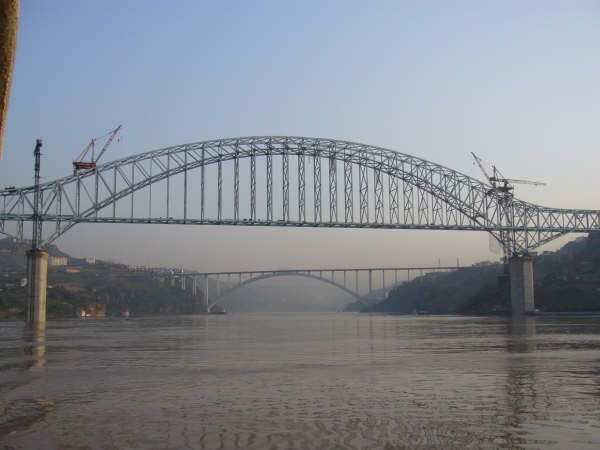 The Wanzhou Yangtze River Railway Bridge (foreground) and the Wanxian Bridge (background) over the Yangtze River in Wanzhou, Chongqing, China